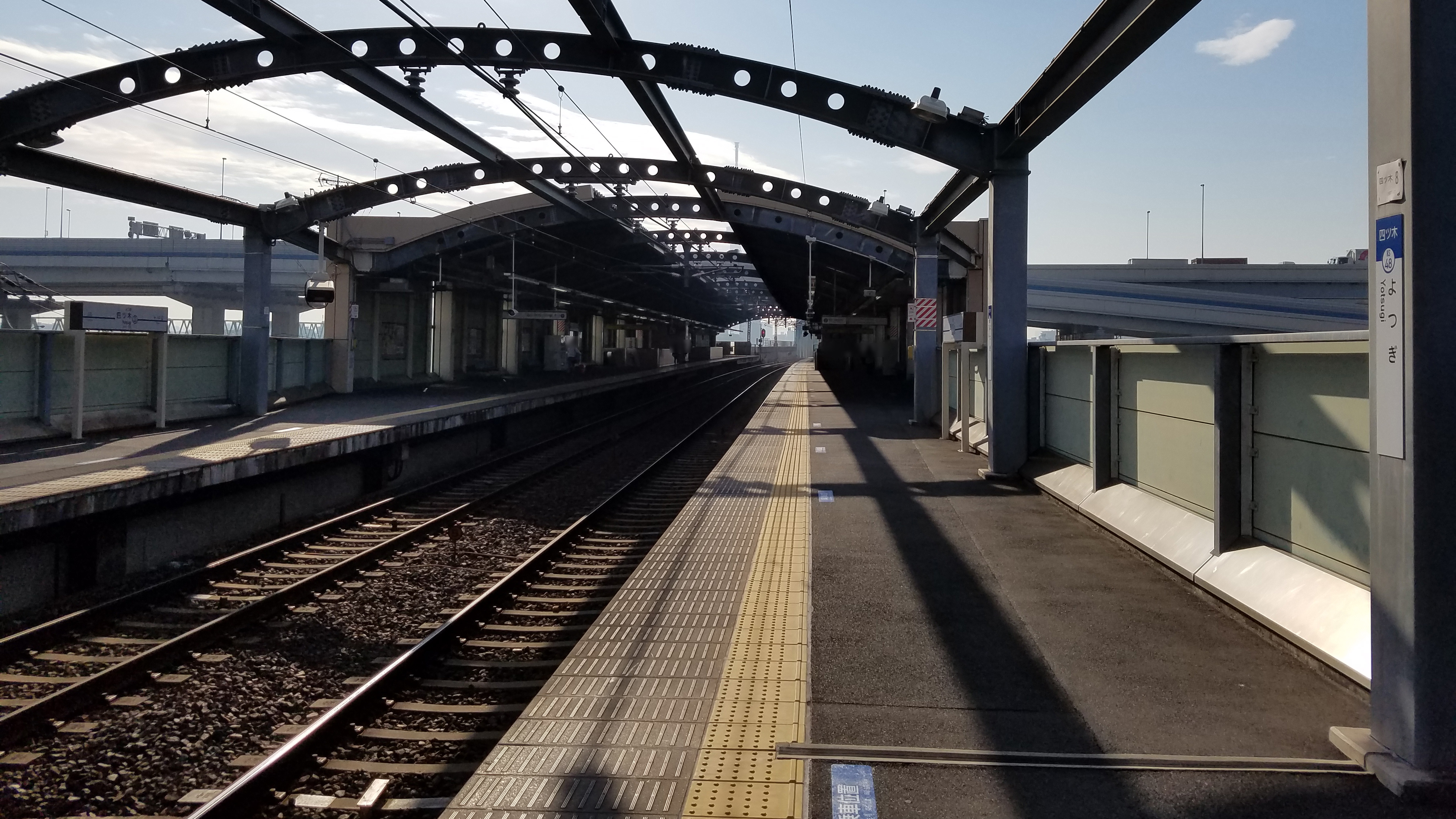 The platforms at Yotsugi Station on the Keisei Oshiage Line, Katsushika city, Tokyo, Japan